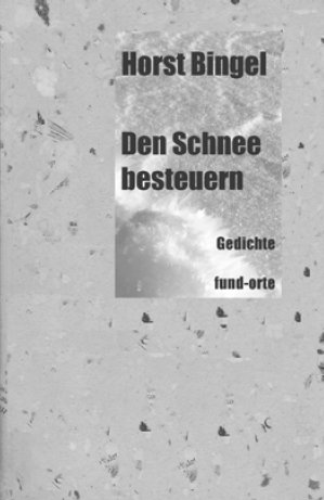 Book cover of Horst Bingel "Den Schnee besteuern. Gedichte" 2009